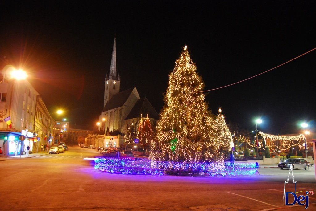 town square at night